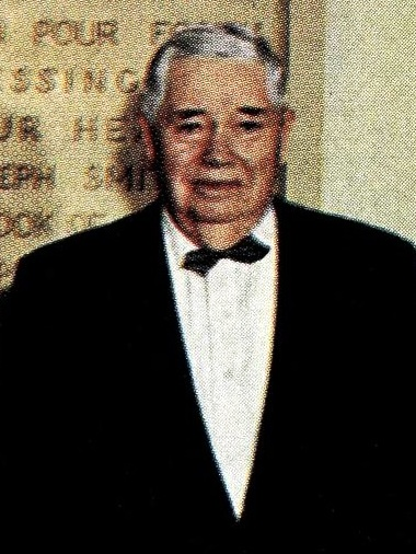 Photo of Photo of J. Reuben Clark, a prominent attorney in the Department of State, and Under Secretary of State for US president Calvin Coolidge, and an Apostle and Counselor in the First Presidency of The Church of Jesus Christ of Latter-day Saints (LDS Church).